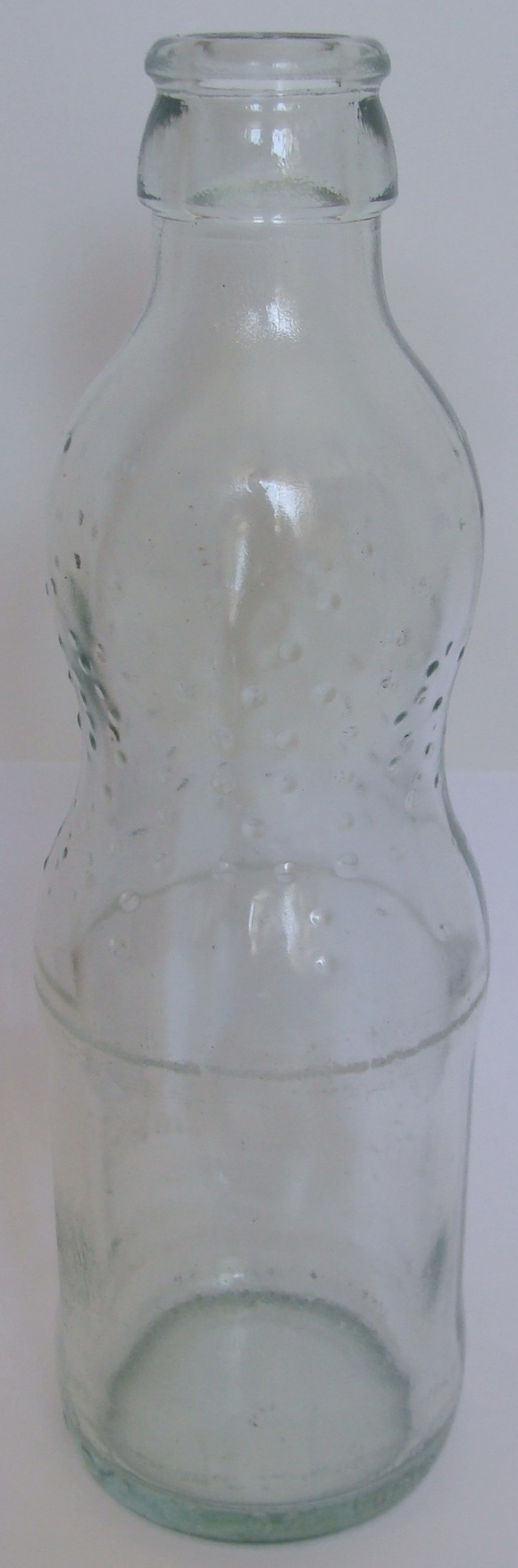 German "Splash-Bottle" for 200ml Fanta. Deposit 0.15 EUR, glass, Label Removed